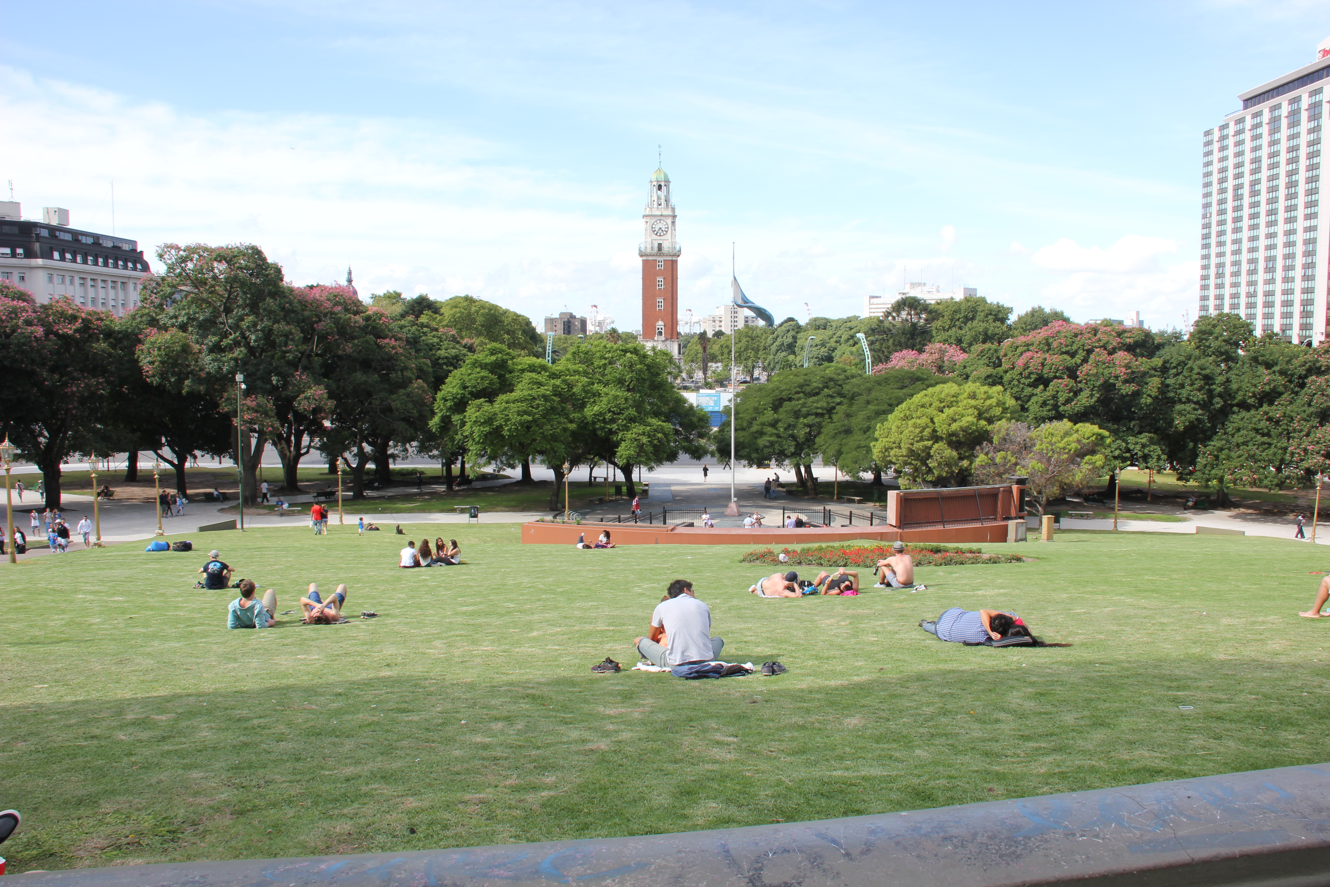 Overview of the grass field and Torre Monumental (formerly: Torre de Los Ingleses) from Plaza General San Martín, Buenos Aires.